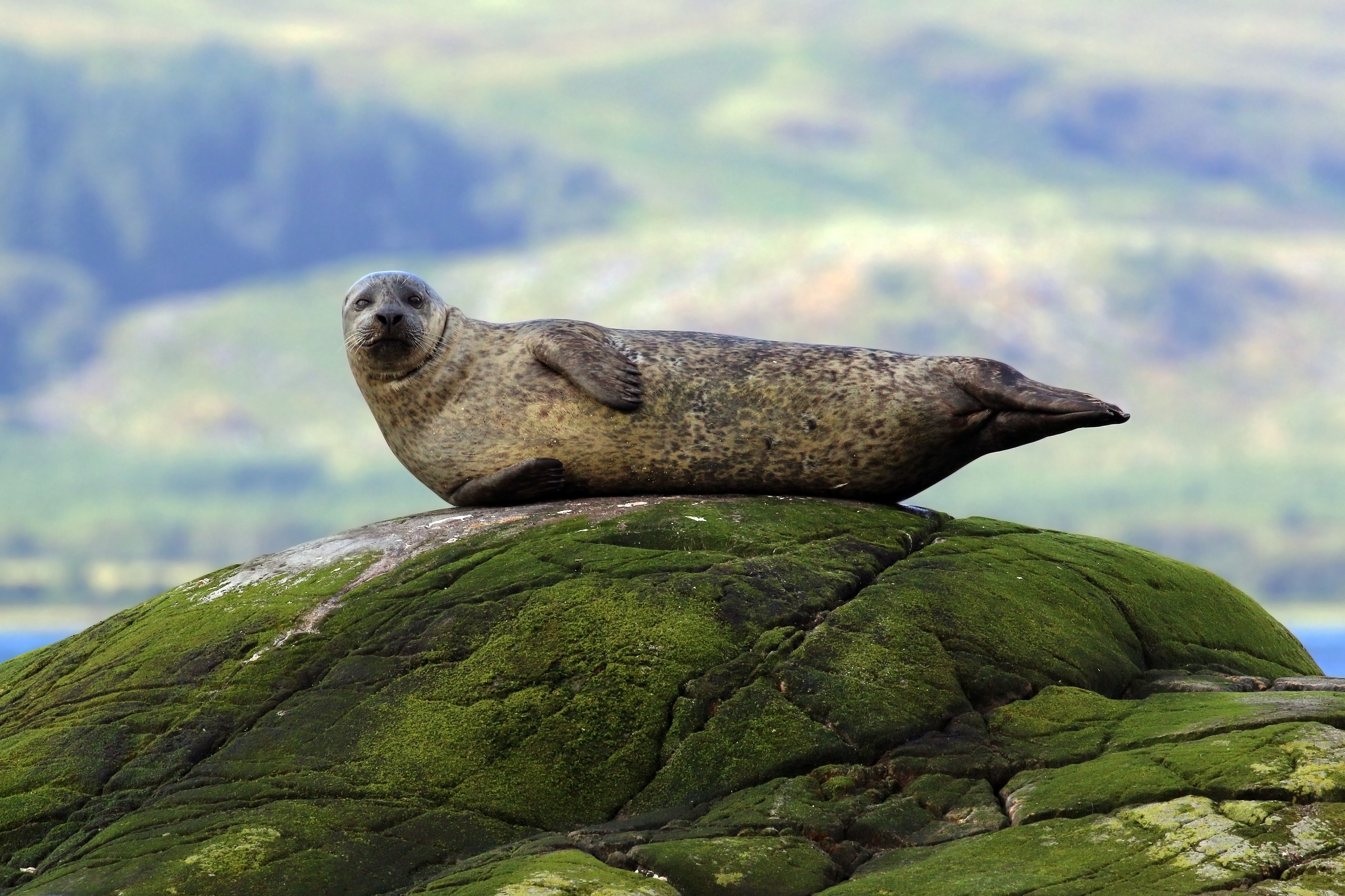 Common seal (Phoca vitulina), off Lismore, Argyll